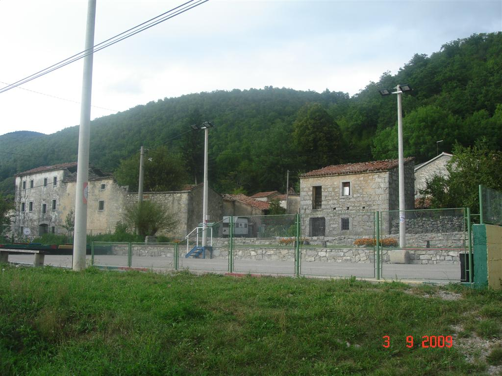 podgace